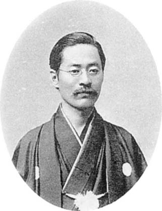 J. Kōmoto, Professor of Ophthalmology.